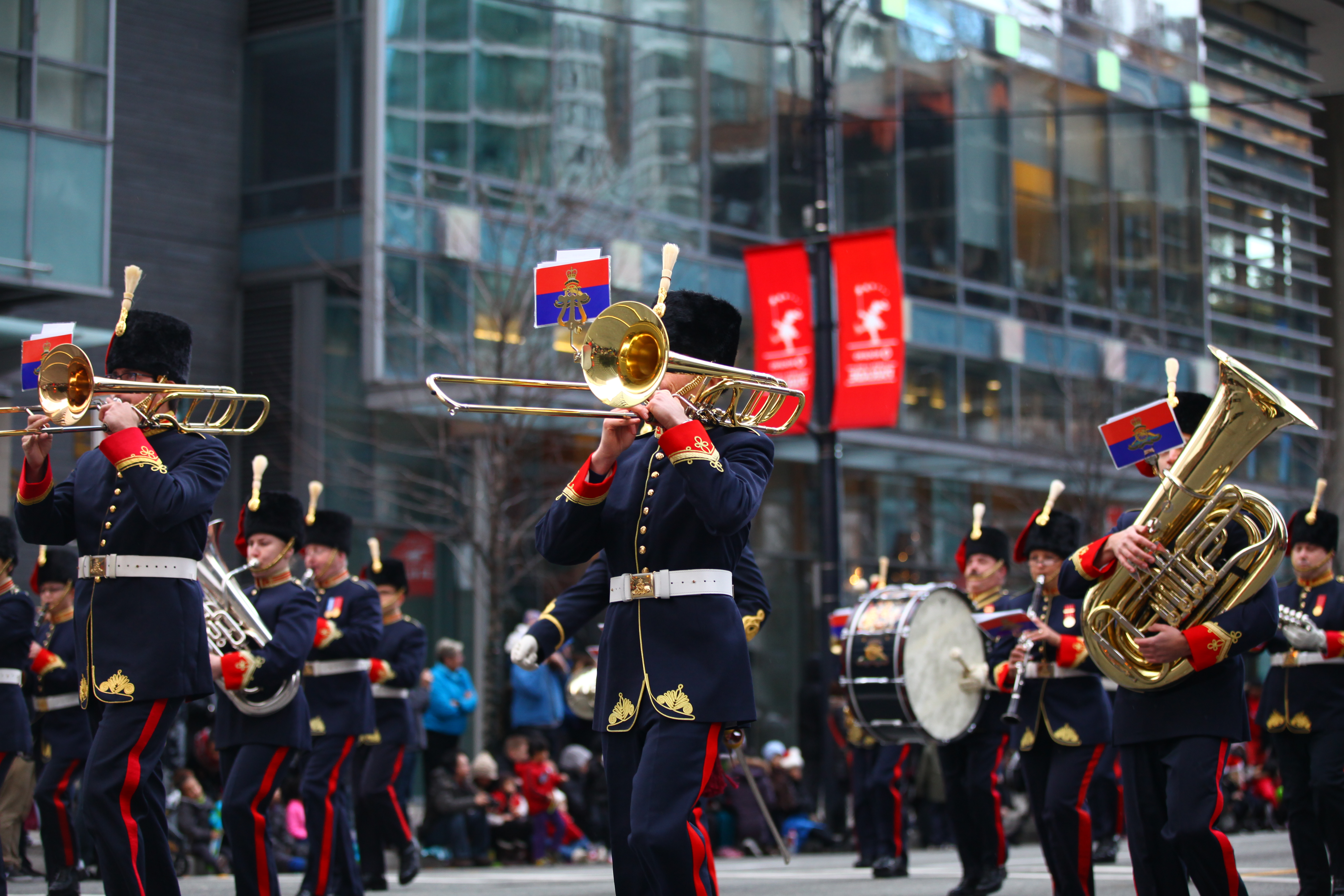 Rogers Santa Claus Parade